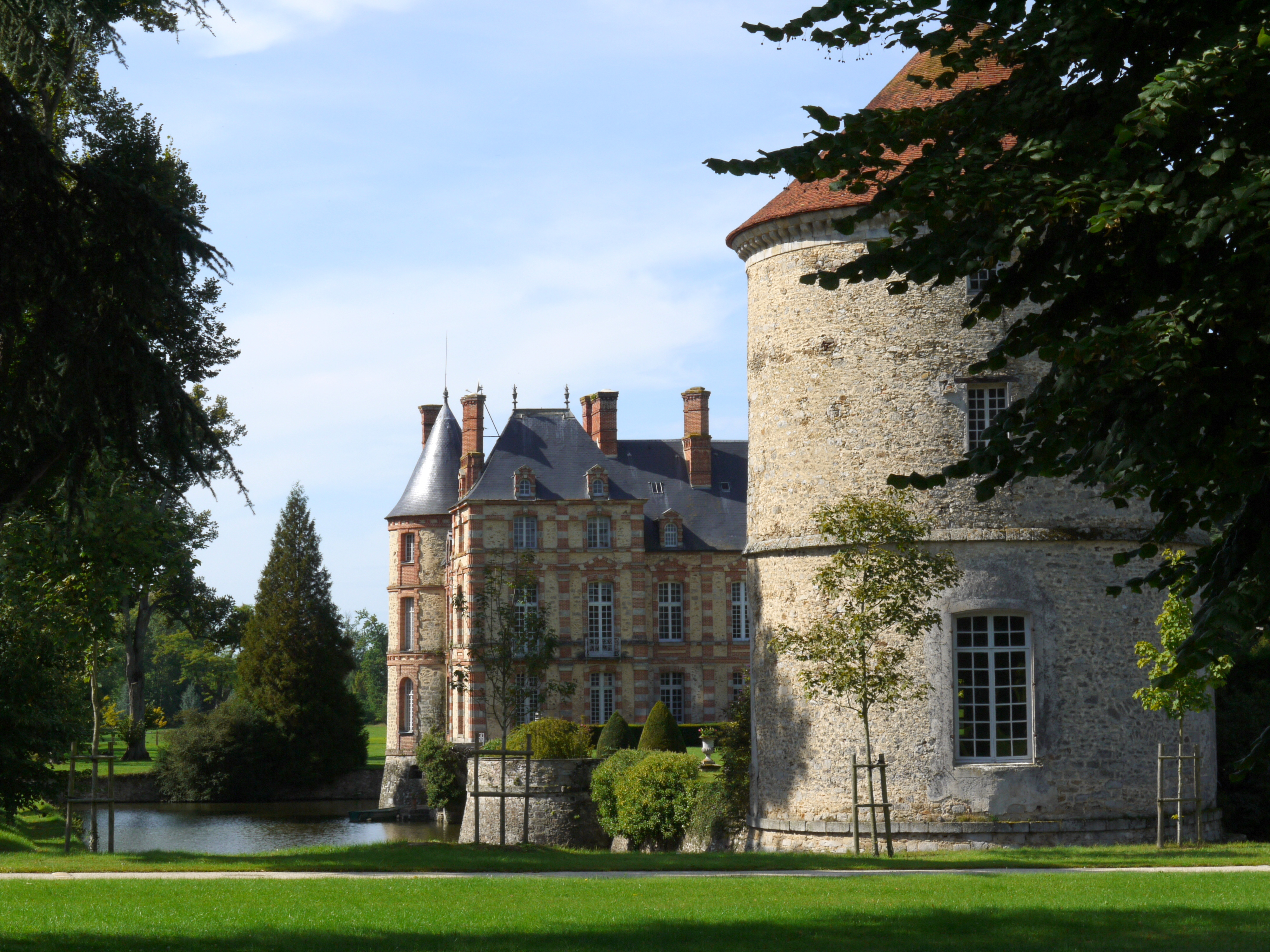 Castle of la Houssaye en Brie, Seine et Marne, Ile de France